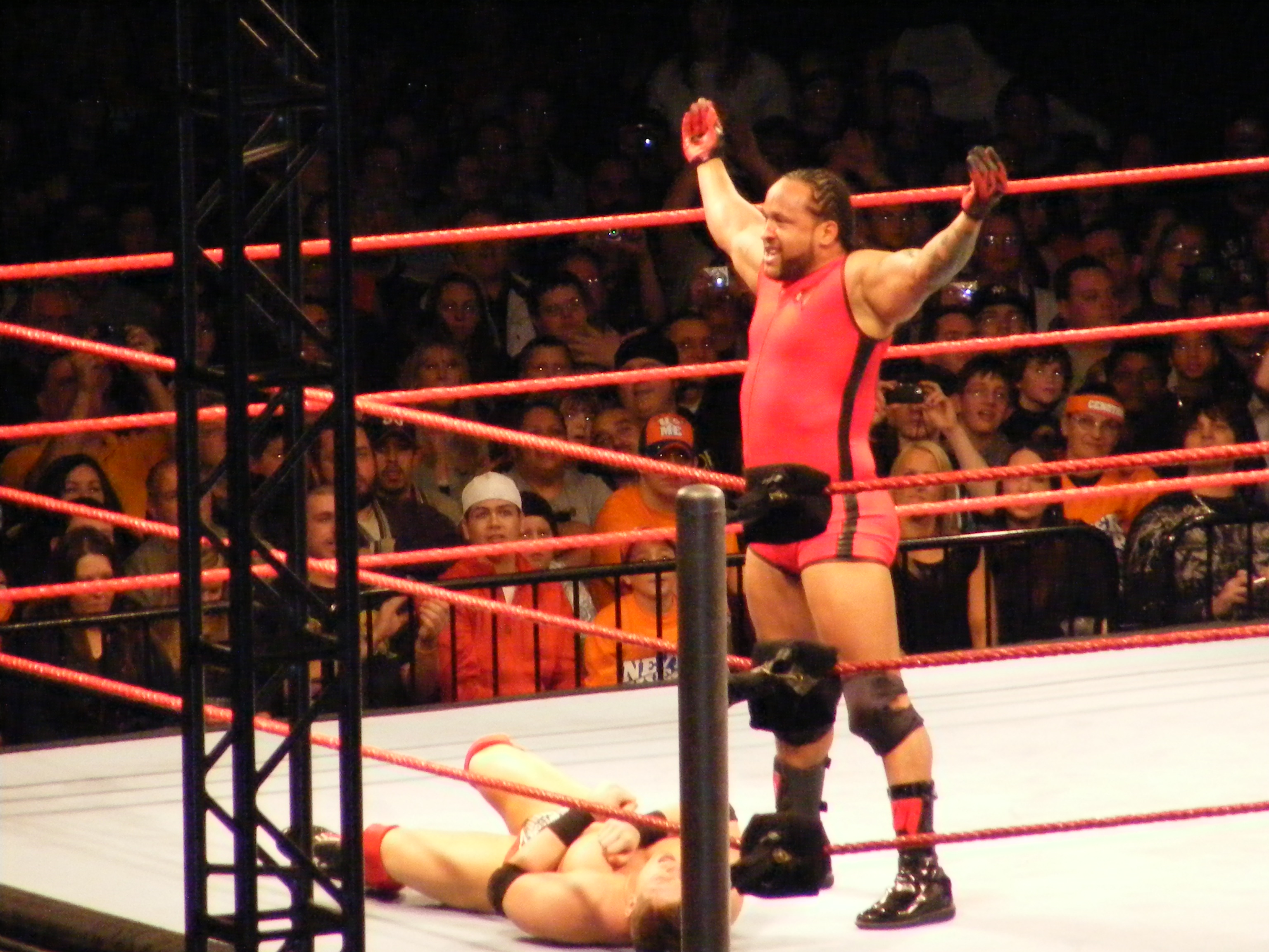 MVP about to hit Ballin Elbow on The Miz